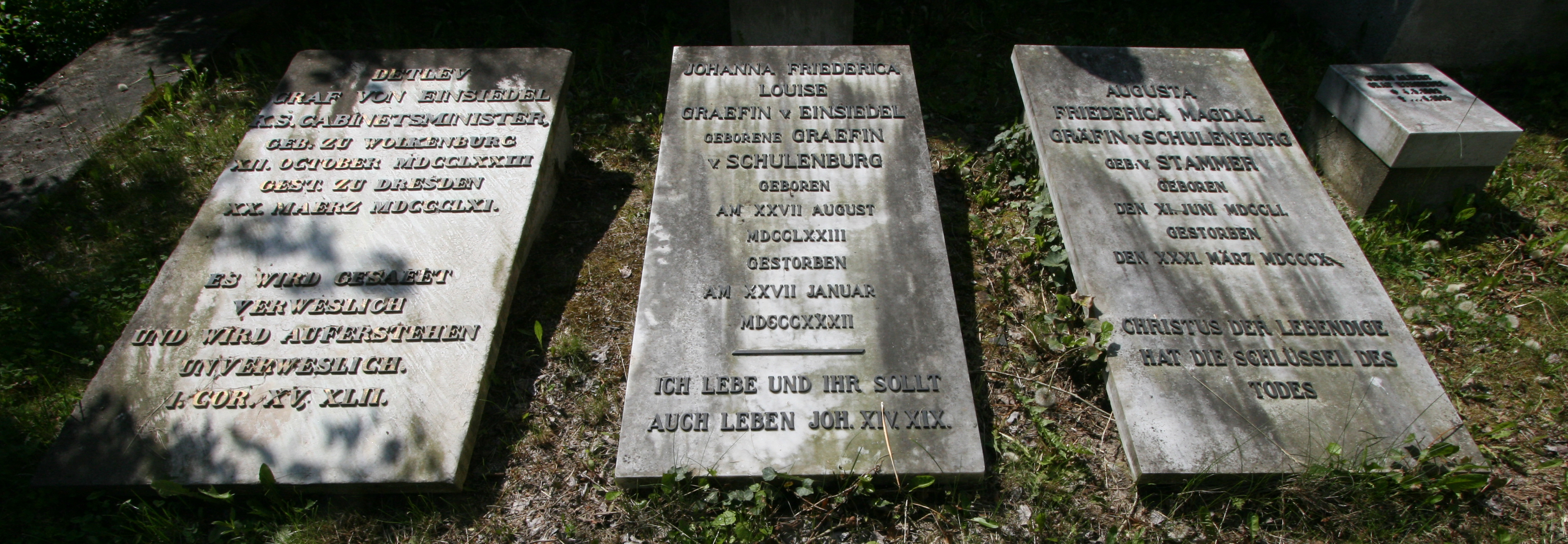 Graves of v. Einsiedel near church of Prietitz (Upper Lusatia, Saxony, Germany)